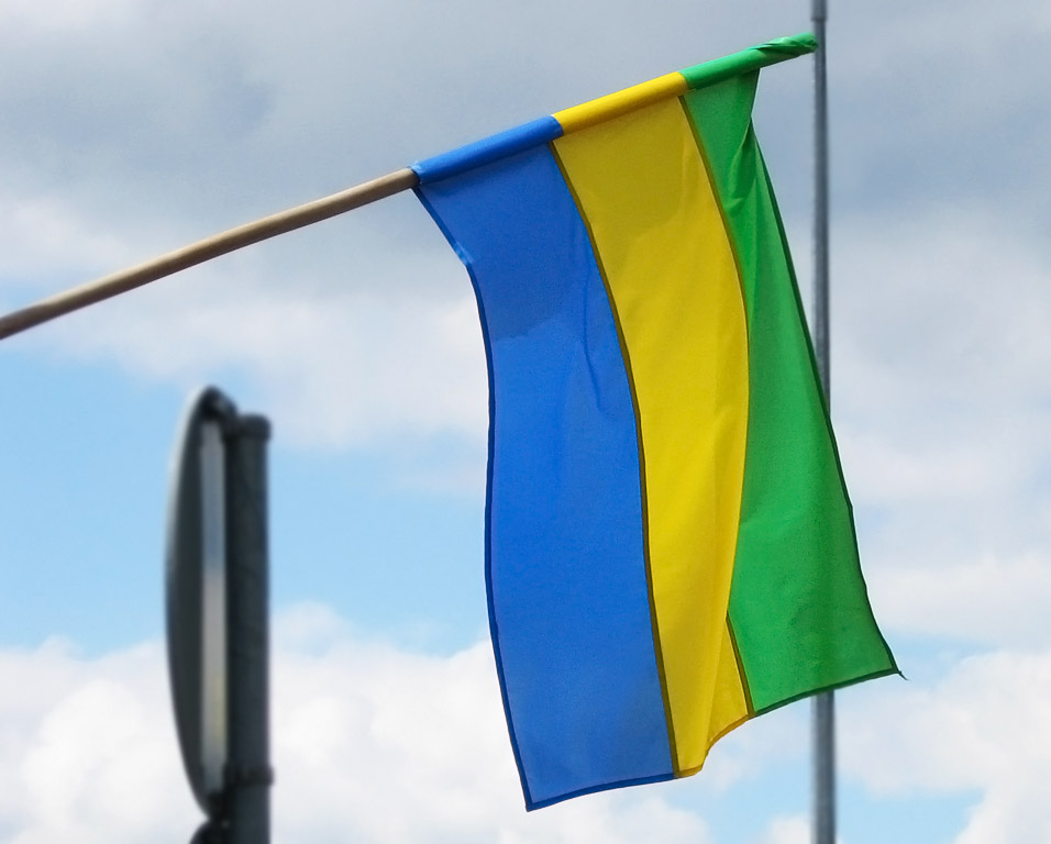 Flag of Ostroleka (Poland).